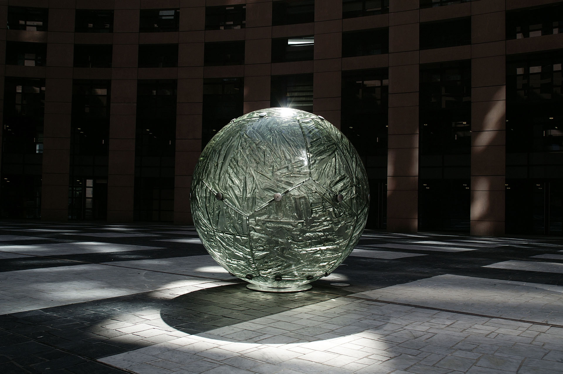 The glass orb by Tomasz Urbanowicz (ARCHIGLASS) entitled “United World”, placed in the central point of the Agora of the European Parliament in Strasburg in 2004, summarizes the notion of openness to expansion of the European Union and reaches even further… into dreams.